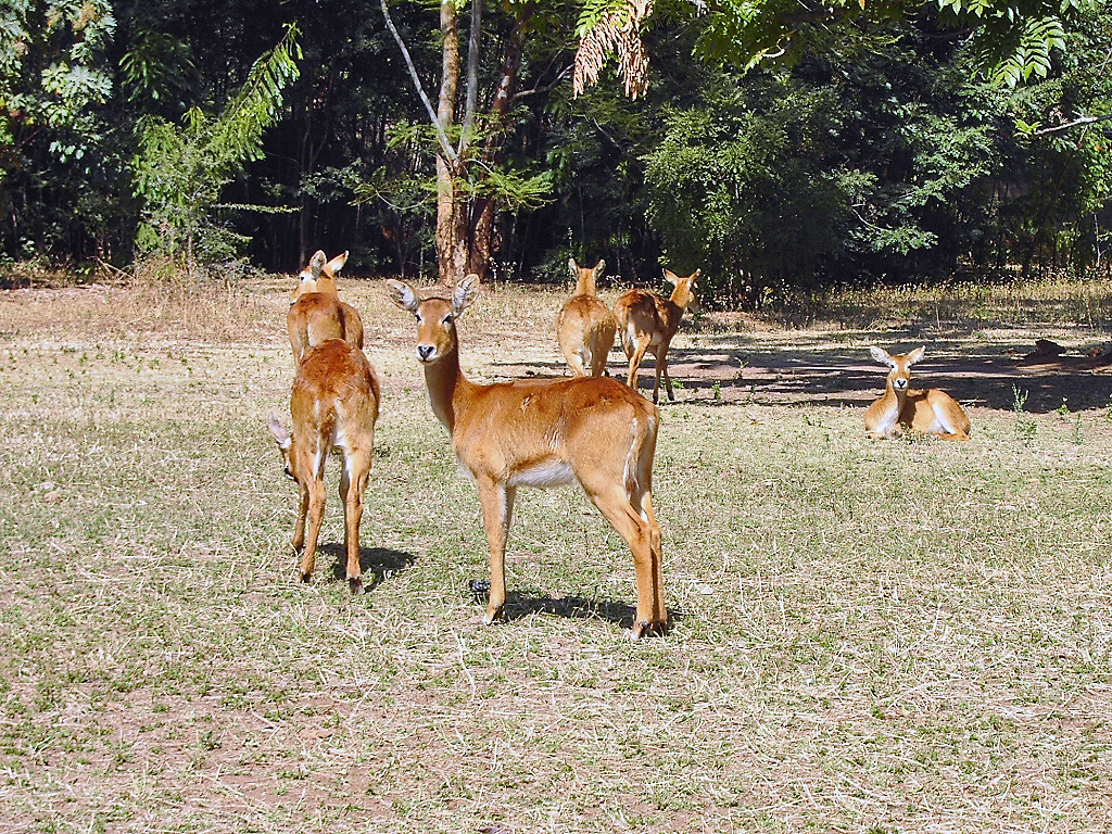 Puku in South Luangwa National Park, Zambia